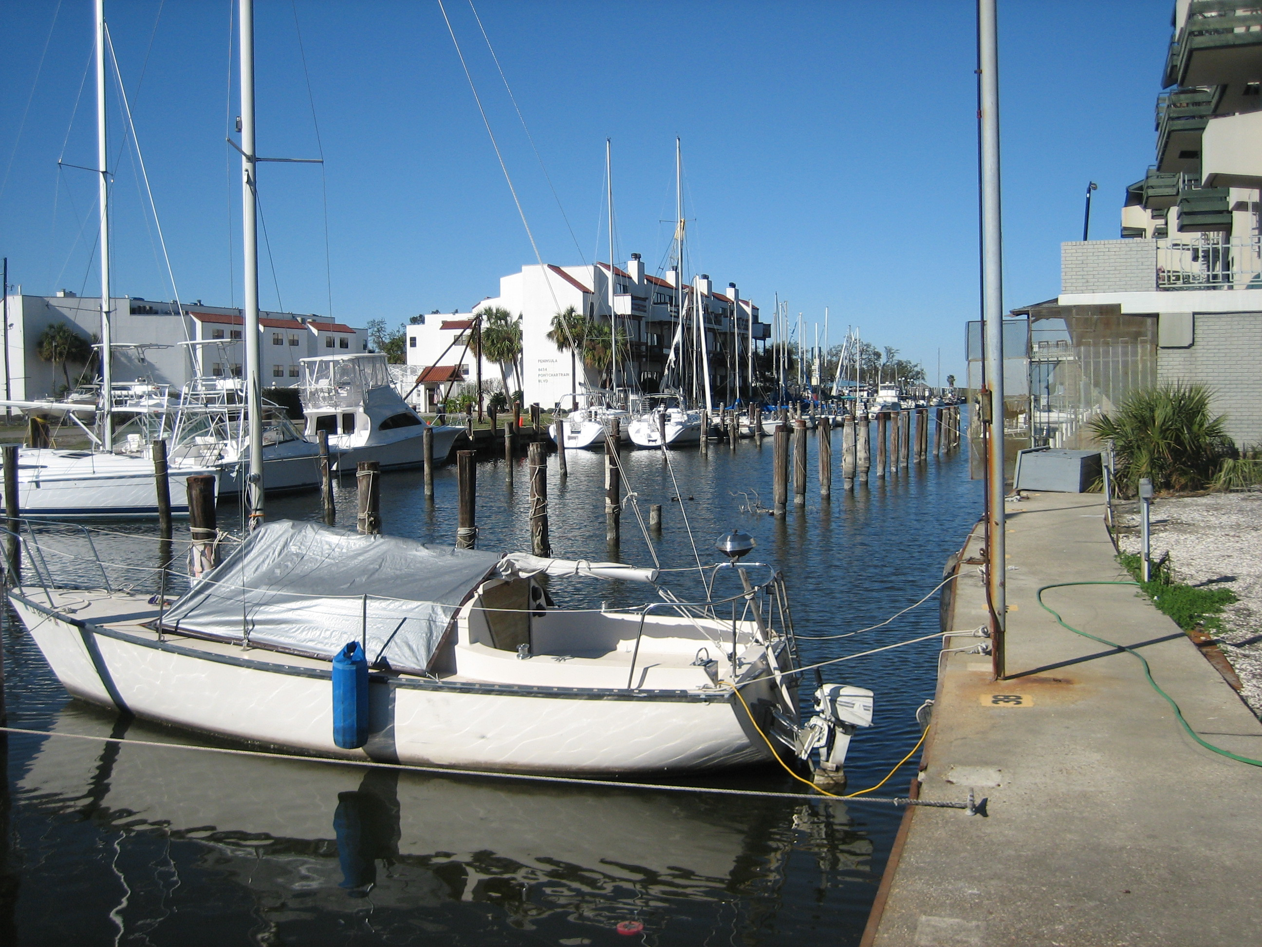 New Orleans: This short canal used as a yacht harbor by Lake Pontchartrain is the remaining remnant of the 19th century New Basin Canal.